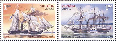 Stamps of Ukraine, 2003